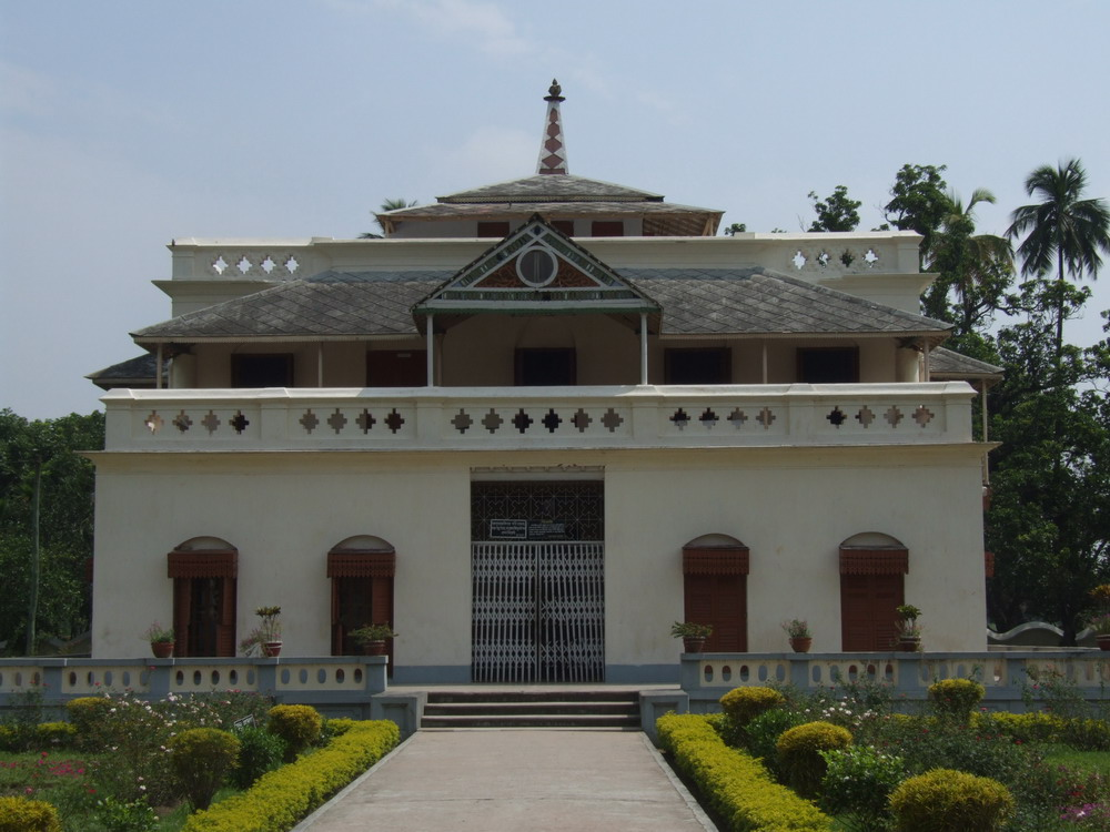 Shilaidaha Kuthibari, the famous residence of Rabindranath Tagore in Kushtia, is a popular tourist destination in Kushtia, Bangladesh.